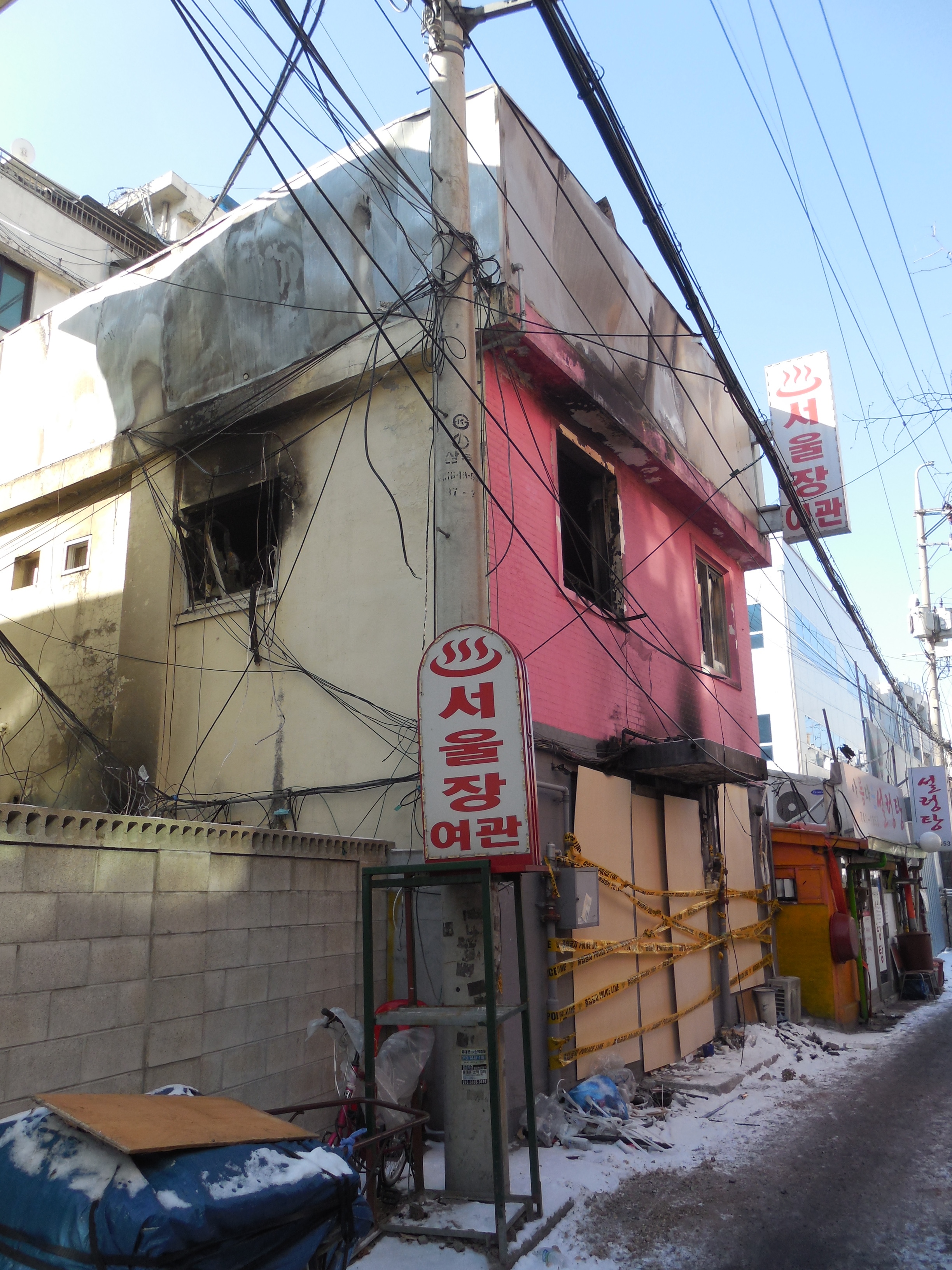 Seouljang Inn, Daehank-ro 2 gil, Jongno-gu, Seoul.